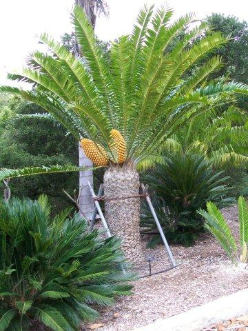 Encephalartos woodii x Encephalartos natalensis; female with cones in Southern California.